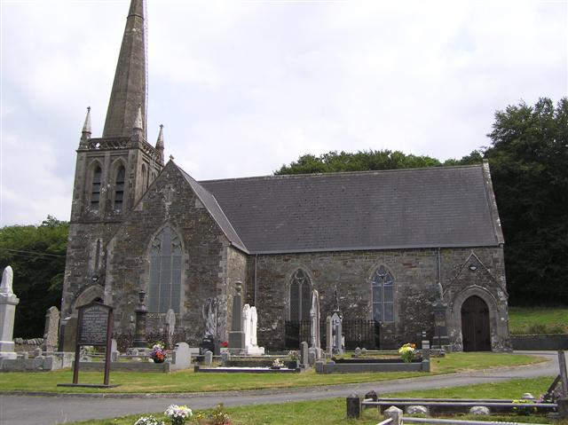 Donaghedy Parish Church of St. James, Donemana. It is in the diocese of Derry, and is located to the north end of the village.